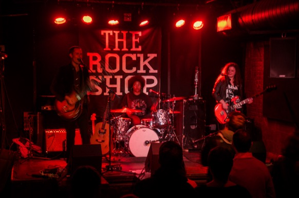 The Rock Shop in Brooklyn on 11/03/2014.